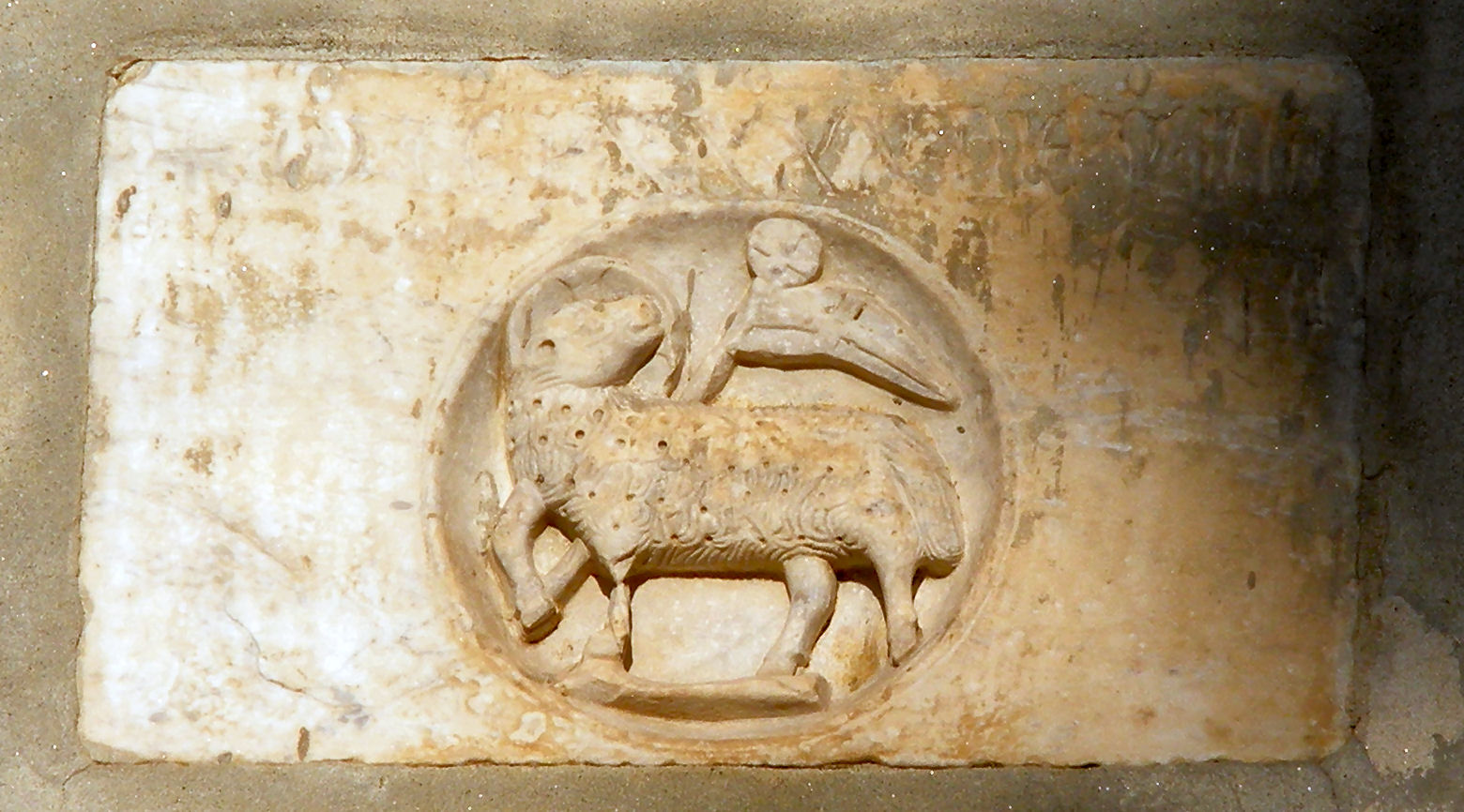 Genoa (Italy), quarter of Bolzaneto, church of St. Francesco alla Chiappetta, Agnus Dei